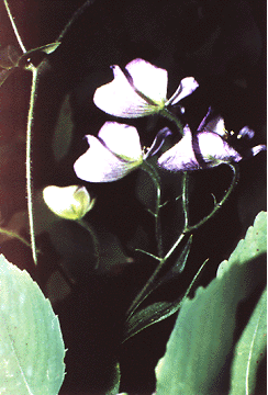 White phase, Northern wild monkshood (Aconitum noveboracense) FWS Great Lakes-Big Rivers Region 3 Endangered Species